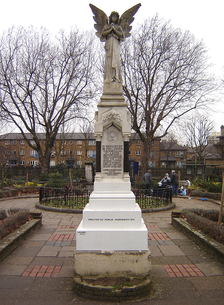 Memorial to the bombing of Upper North Street School, Poplar, on 13 June 1917 by Gotha aircraft, Poplar Recreation Ground, East India Dock Road, Poplar, Tower Hamlets, London. 4 February 2006. Photographer: Fin Fahey.